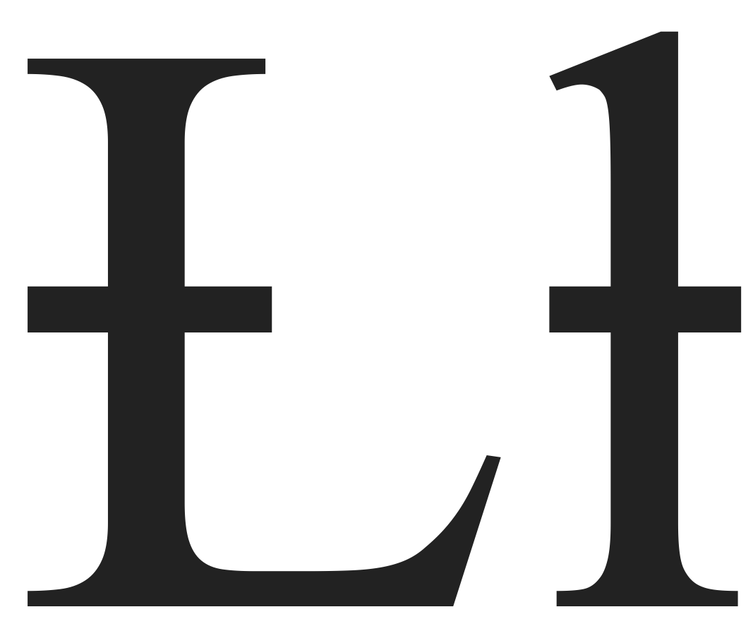 L with bar in Doulos SIL